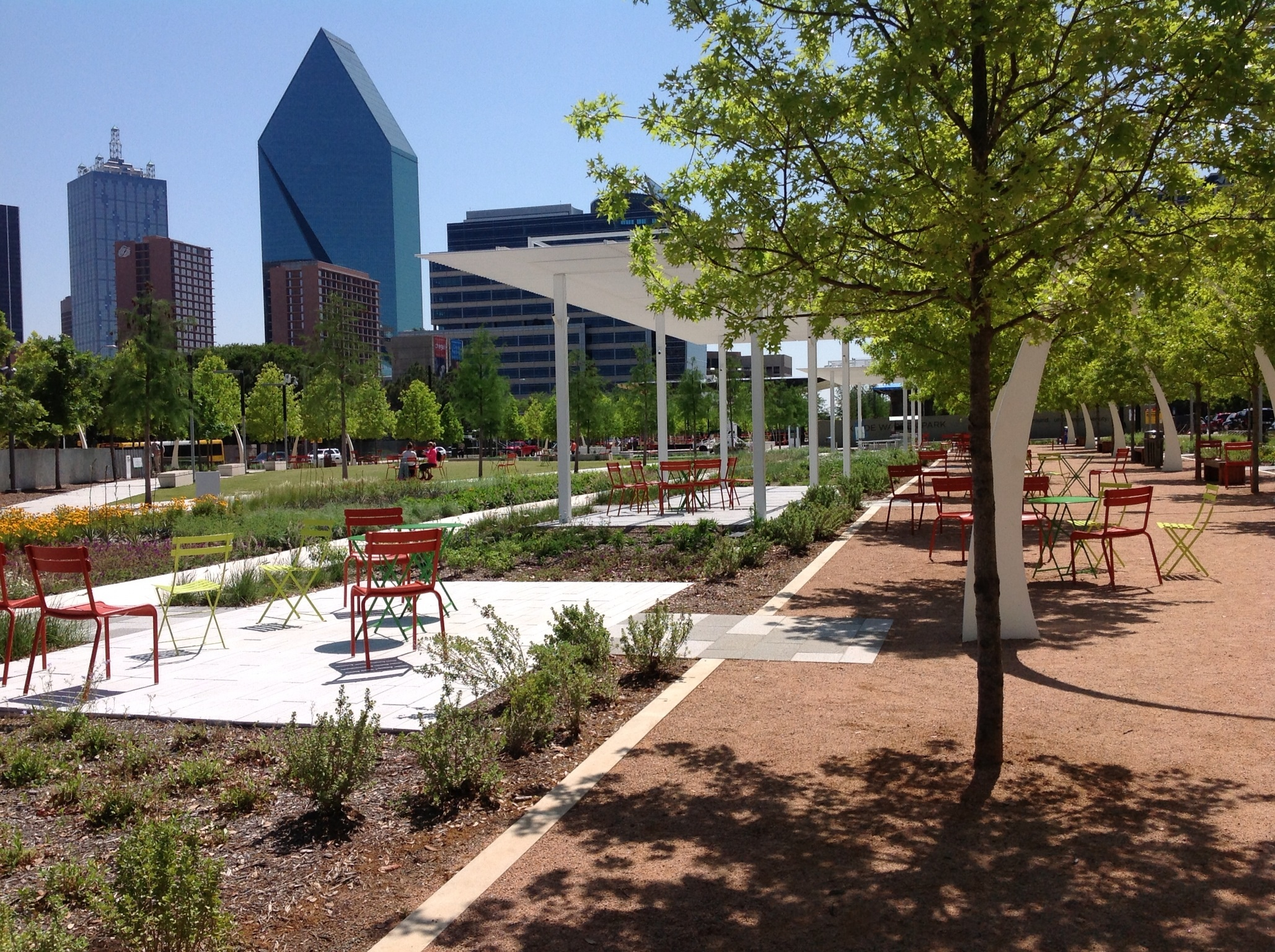 Sunny day at Klyde Warren Park